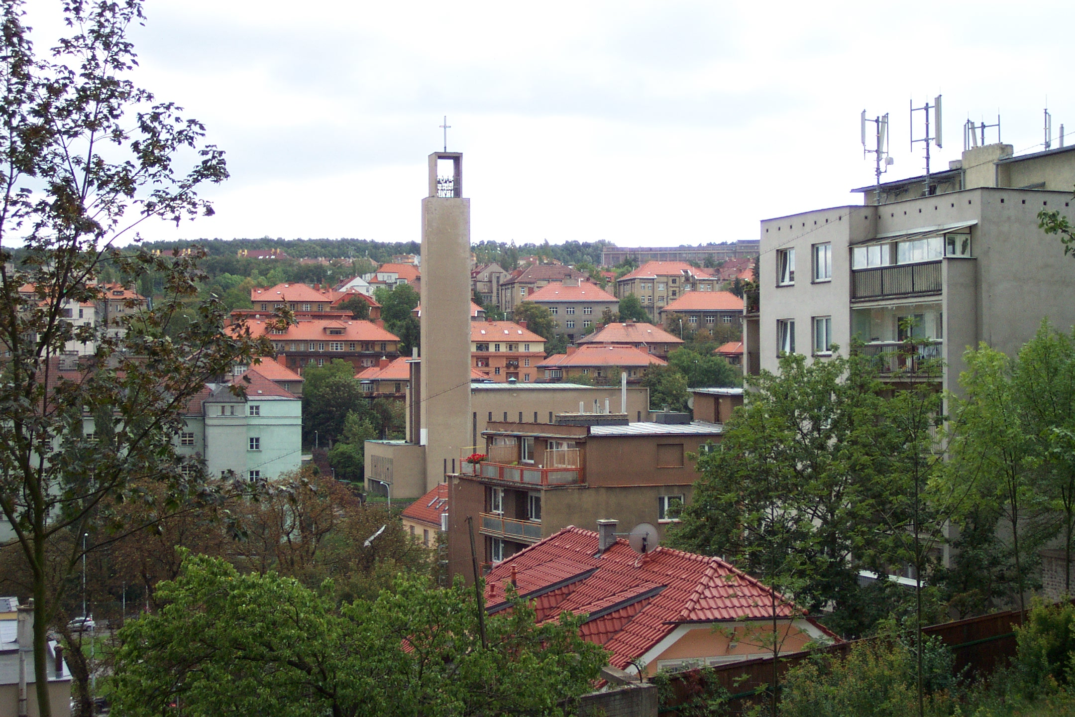 View from the Skalka hill in Prague-Smíchov to surrounding parts of Prague (see filename)